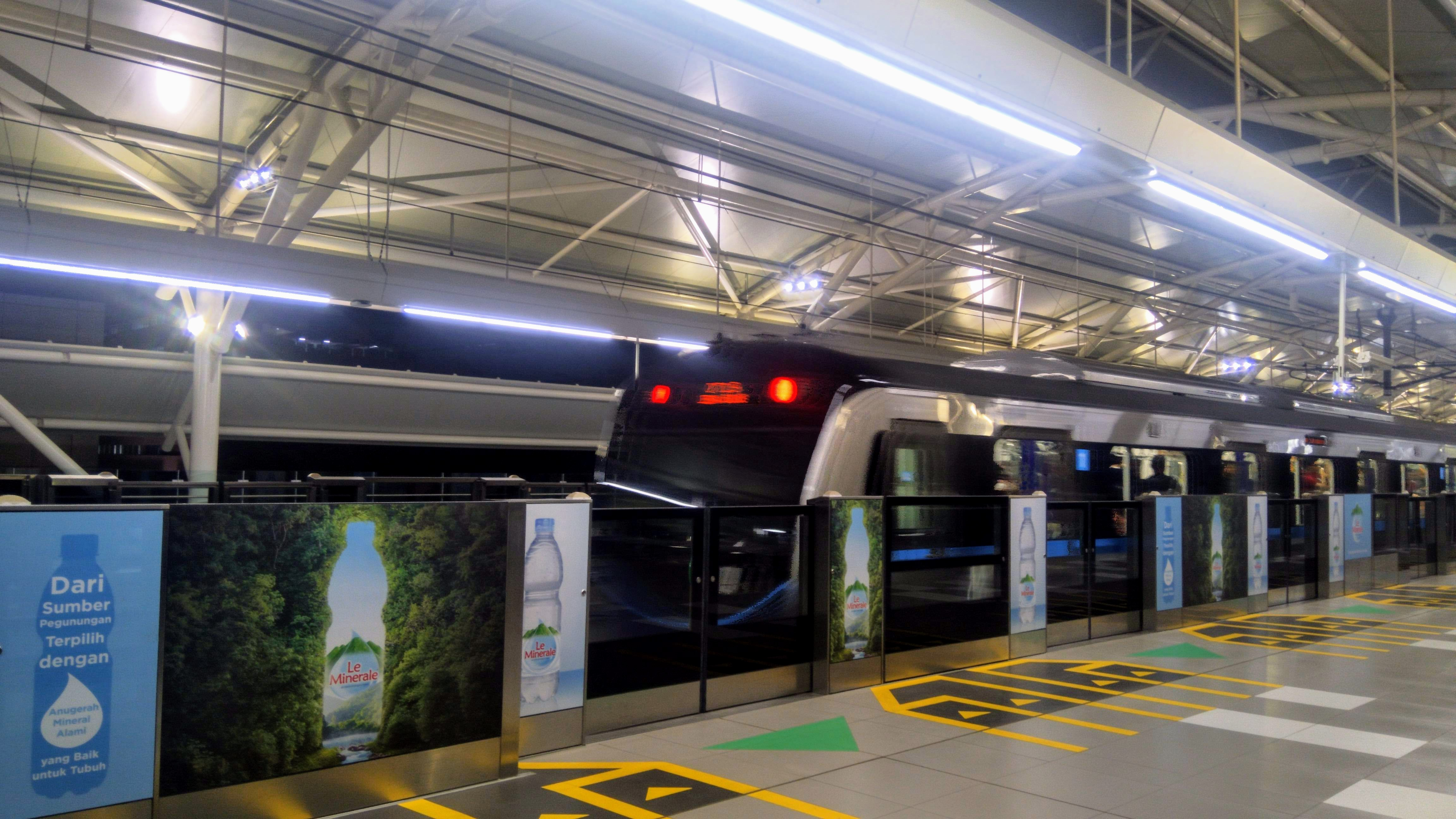 Jakarta MRT train departing from ASEAN MRT Station